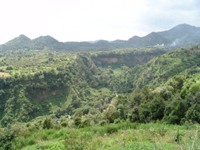 The Amatzinac valley east of Hueyapan, Morelos, Mexico.